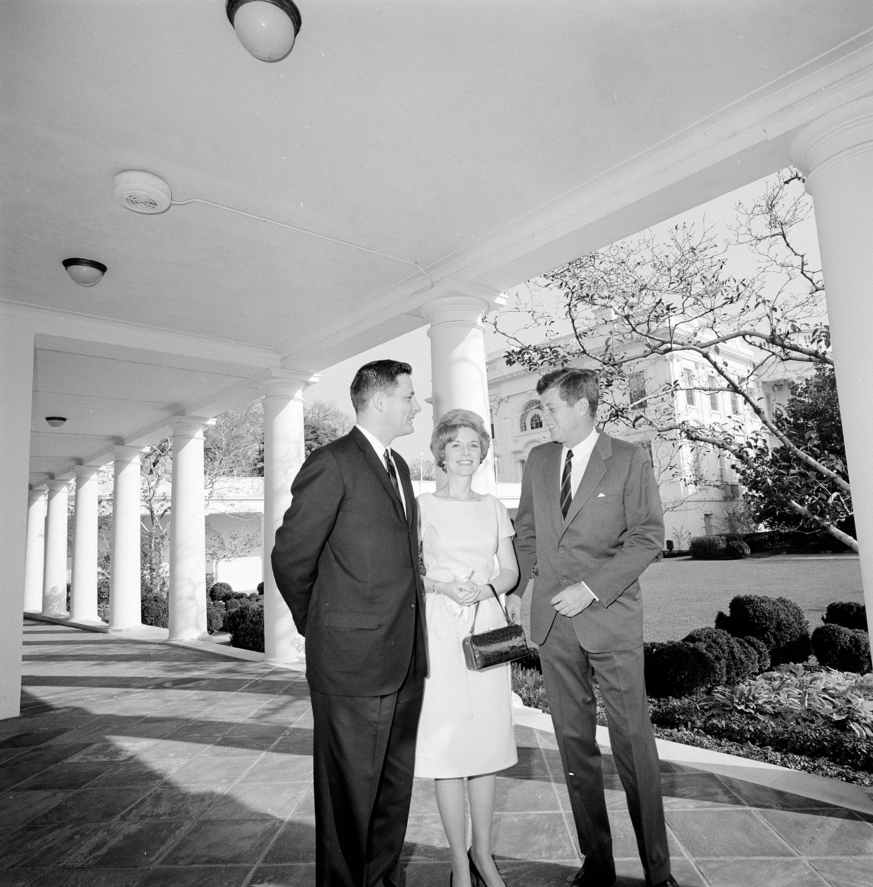 President John F. Kennedy meets with Senator-elect Birch Evans Bayh, Jr., of Indiana (left); Marvella Hern Bayh stands in center. West Wing Colonnade, White House, Washington, D.C.